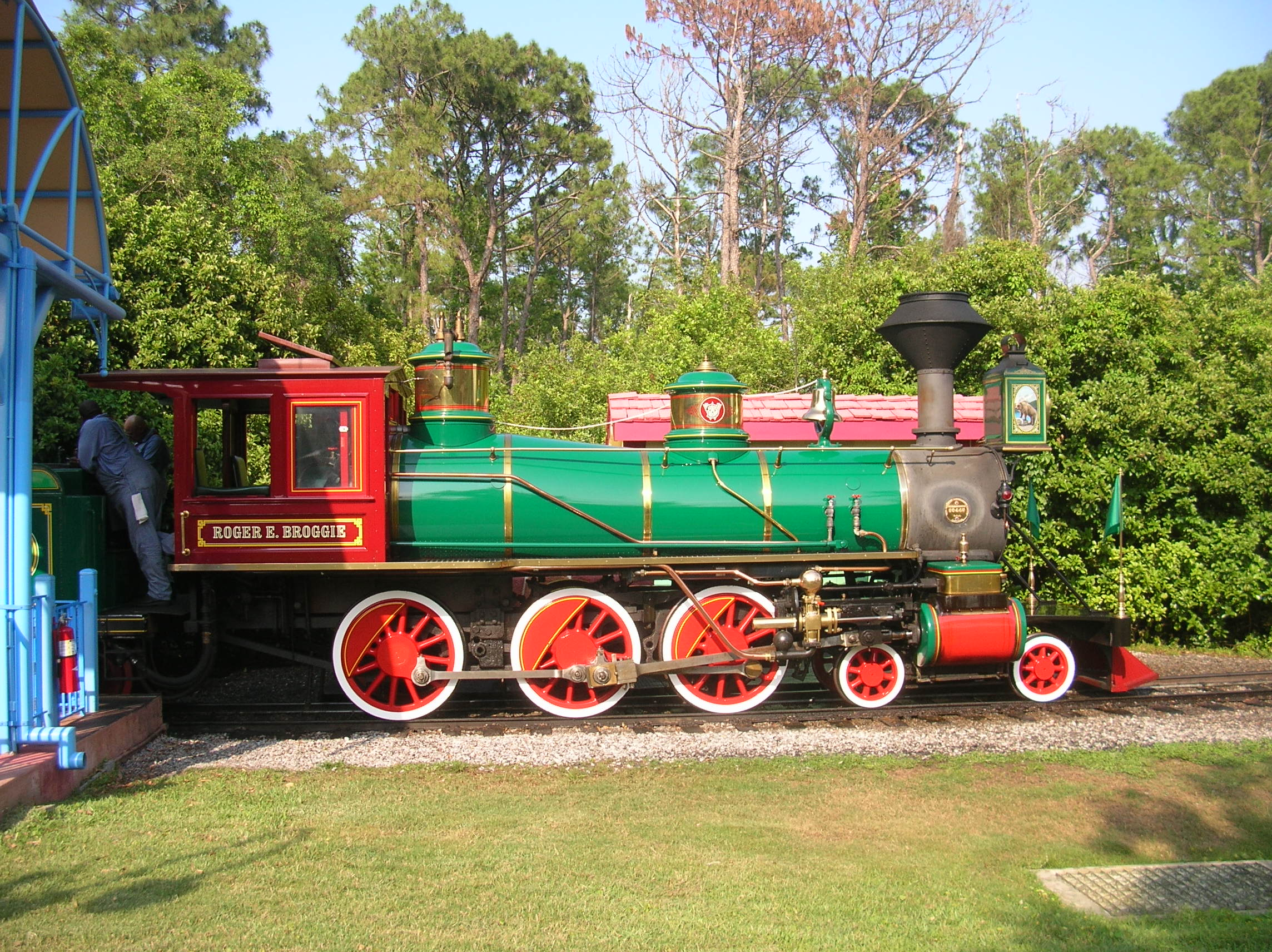 The Roger E.Broggie waiting at Mickey's Toontown Fair.